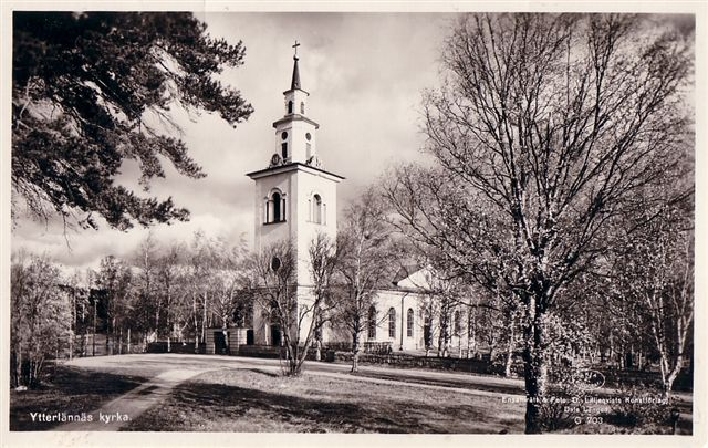 The new church of Ytterlännä, consecrated in 1854.